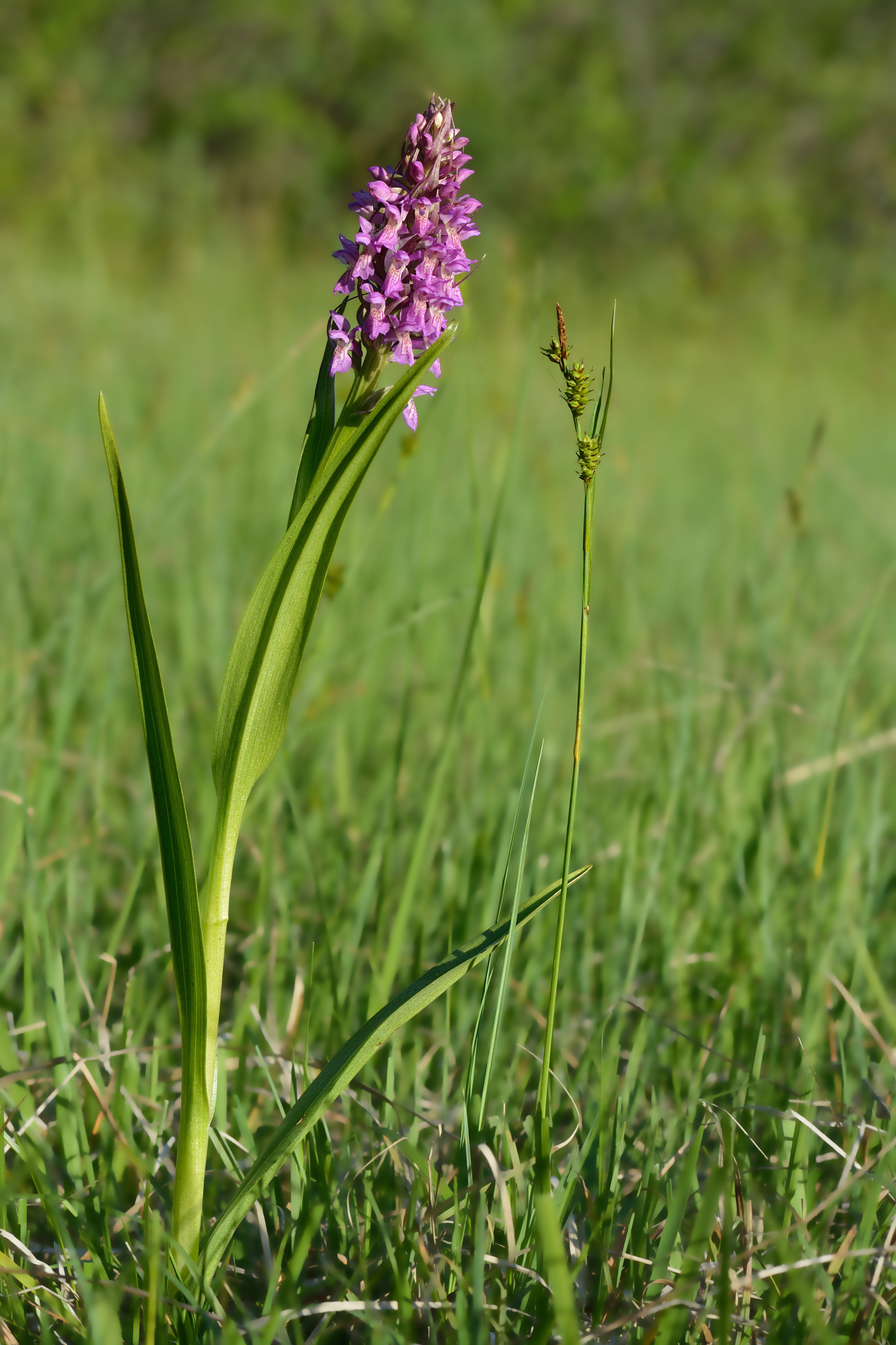 Early Marsh Orchid (Dactylorhiza incarnata) and Long-stalked Yellow-sedge (Carex lepidocarpa). Niitvälja Bog, Northwestern Estonia.